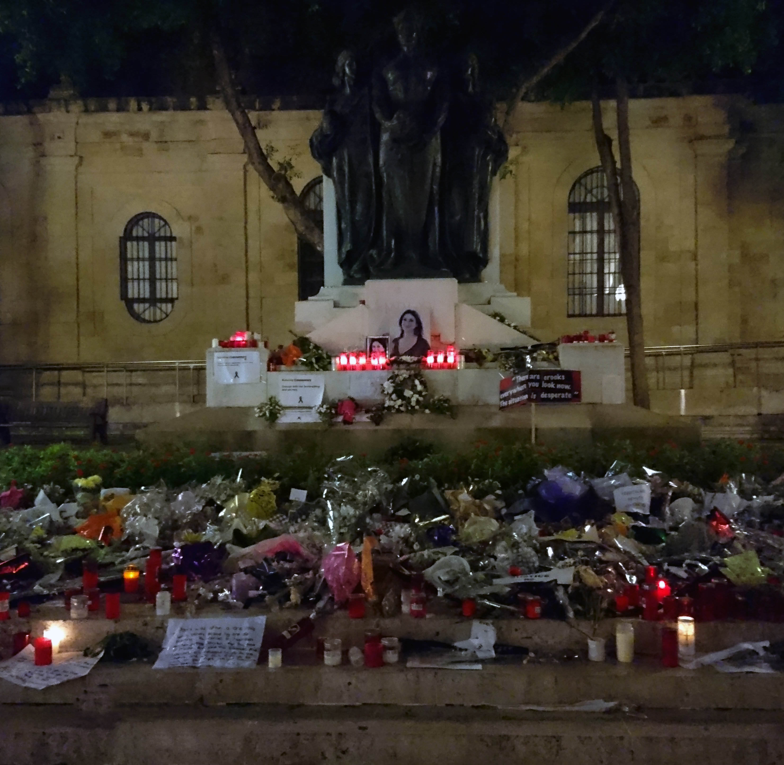 The photo was taken at sunset in Valletta, and it shows flowers, candles and tributes left at the foot of the Great Siege Monument, in front of the Courts of Justice building